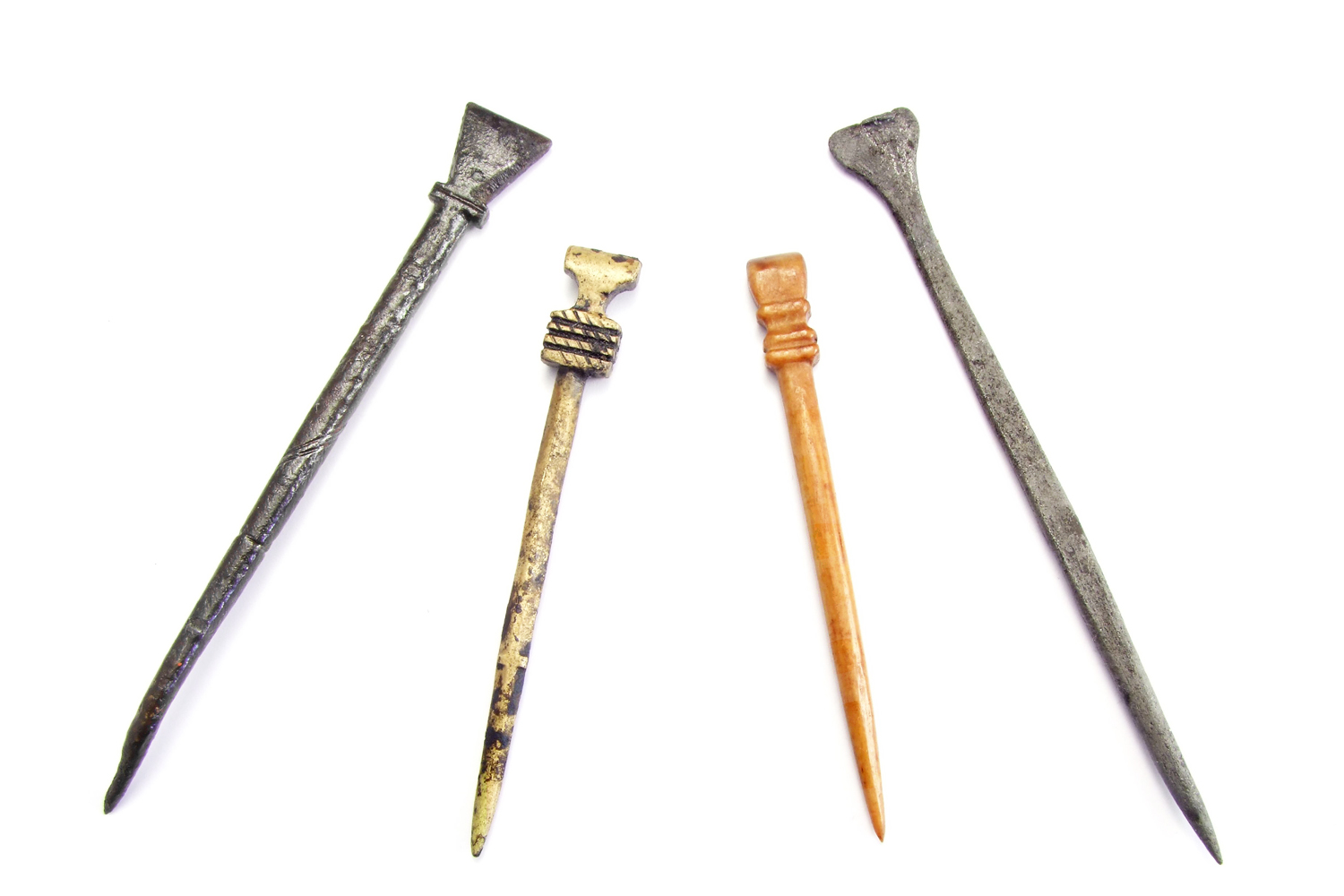 4 examples of medieval styli: two large iron examples, a smaller one made of brass, the smallest stylus made of bone.